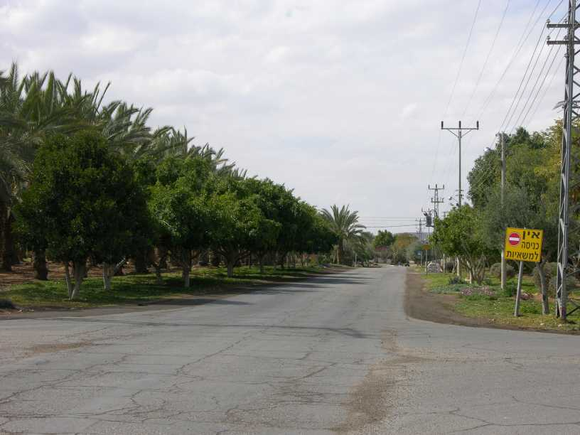 Tzofar